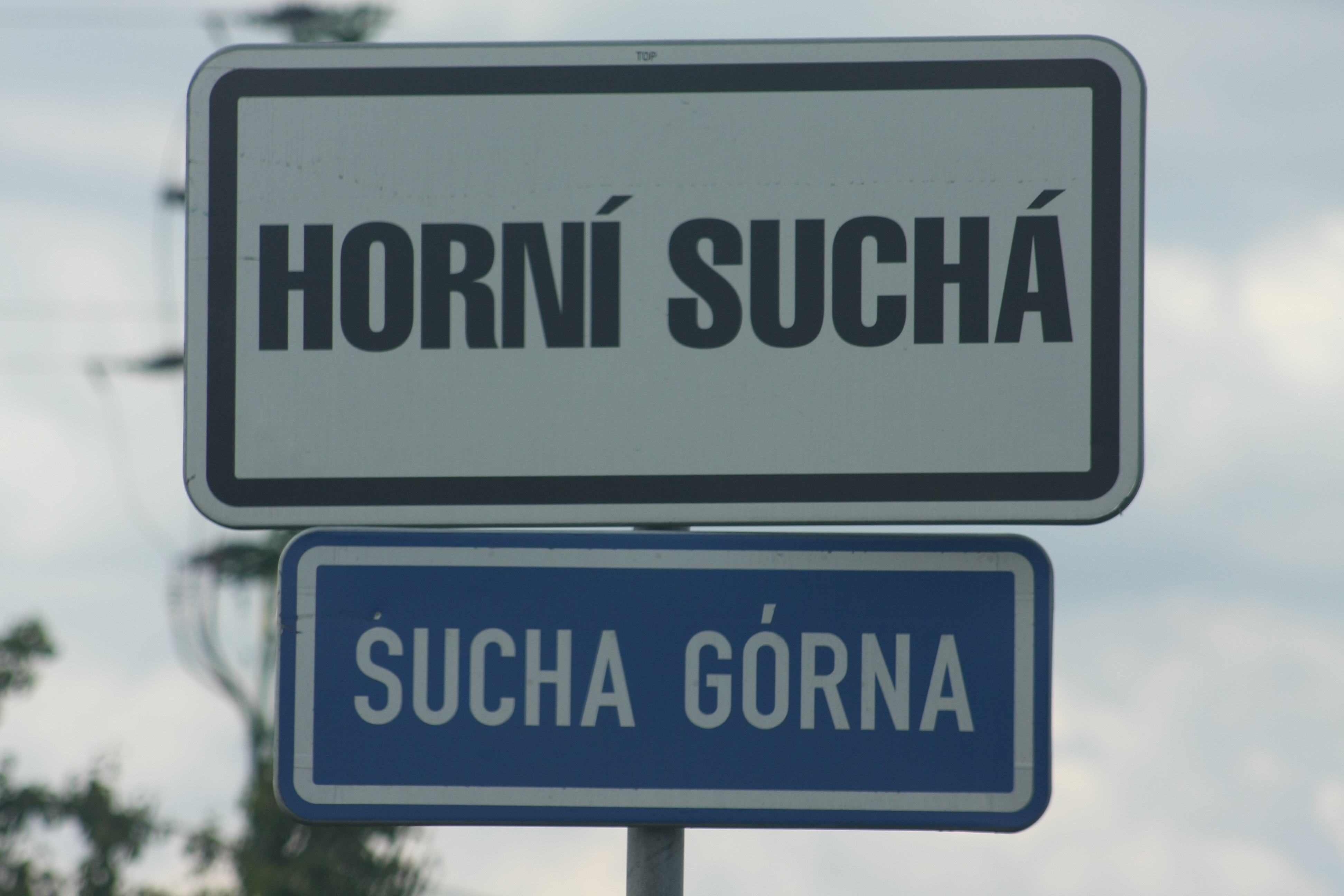 Chech and Polish names in Horní Suchá/Sucha Górna